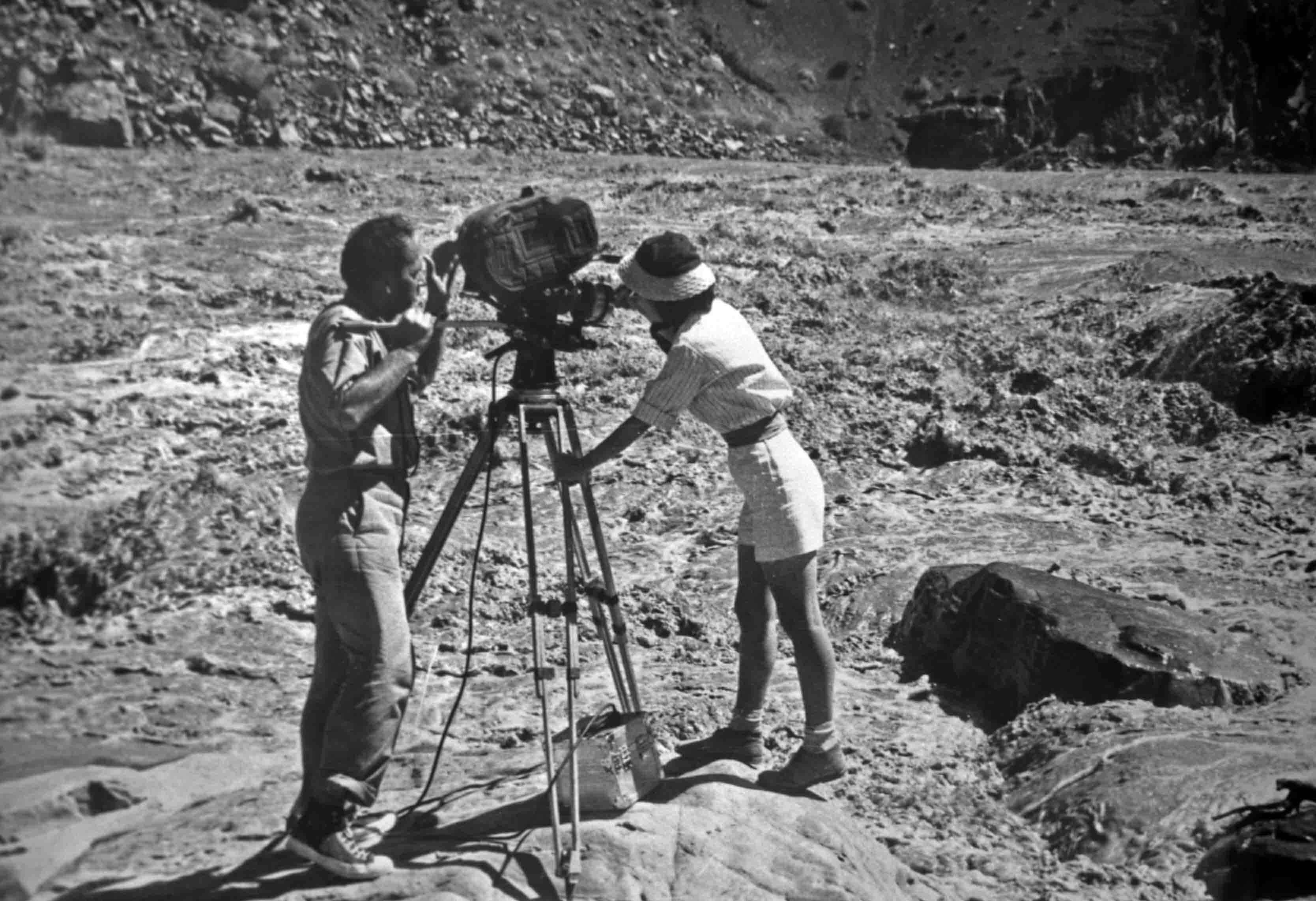 In April of 1958, Ernst and Jeanne Heiniger filmed Grand Canyon from a river rafting trip. They were accompanied by Jim Algar on the first half of the trip. The film they made, Grand Canyon, received an academy award in 1959.